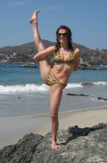 Bird of Paradise in Zihuatanejo